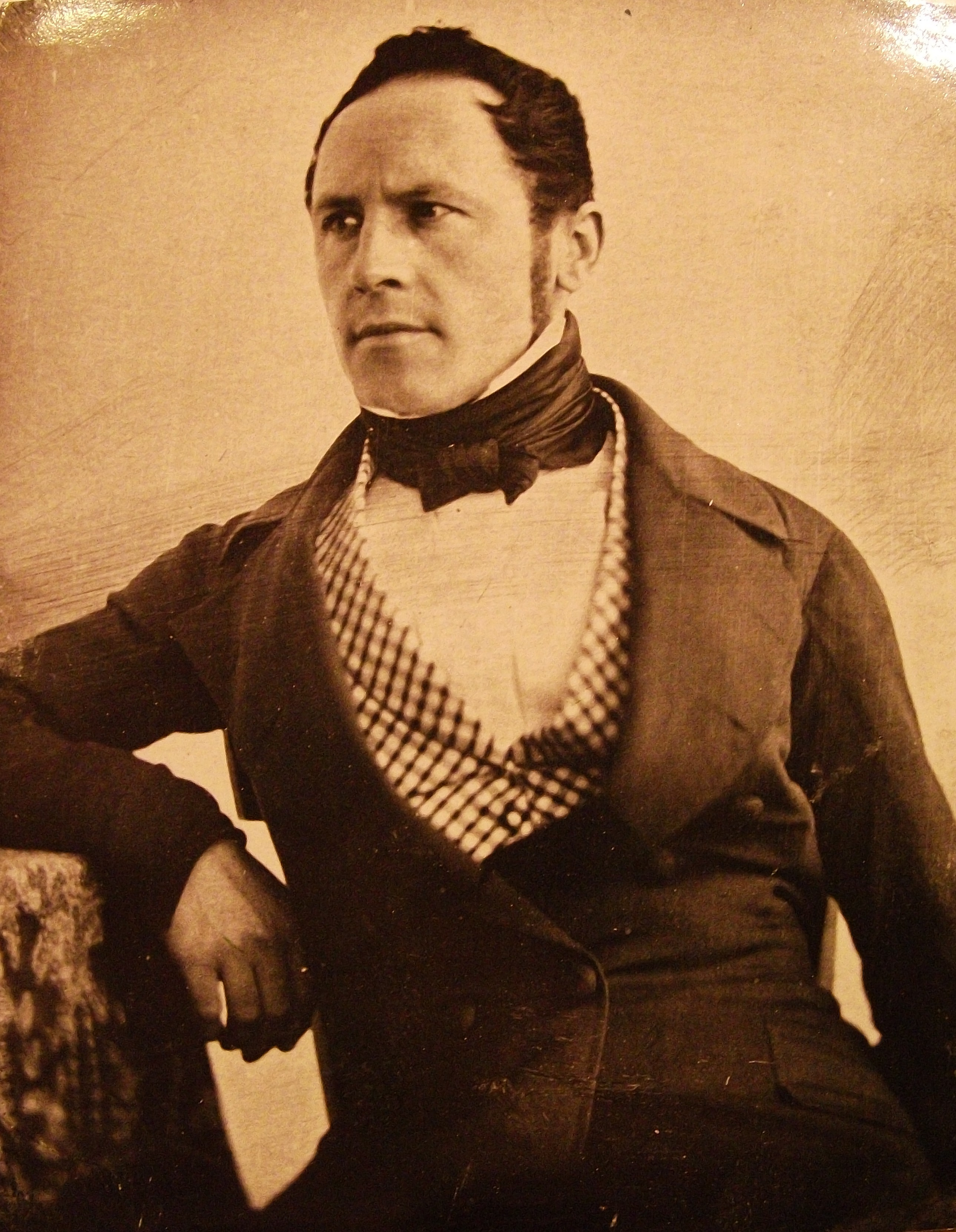 Johann Jakob Speiser (1813–1856) from Basel, Switzerland, banker and politician.